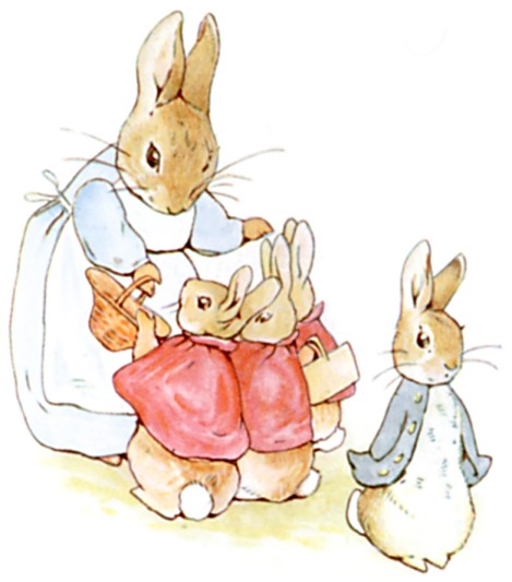 Illustration from children's book The Tale of Peter Rabbit